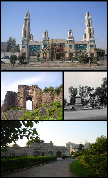 Montage of the Pakistani city of Rawalpindi from images File:Queen_Victoria's_Statue,_Rawalpindi,_1939.jpg File:The_Mess_Hall_Rawalpindi.jpg File:Gulshan_Dadn_Khan_Maseet,_Rawalpindi.JPG File:Gate_of_Pharwala_Fort_toward_the_Swaan_stream.JPG.